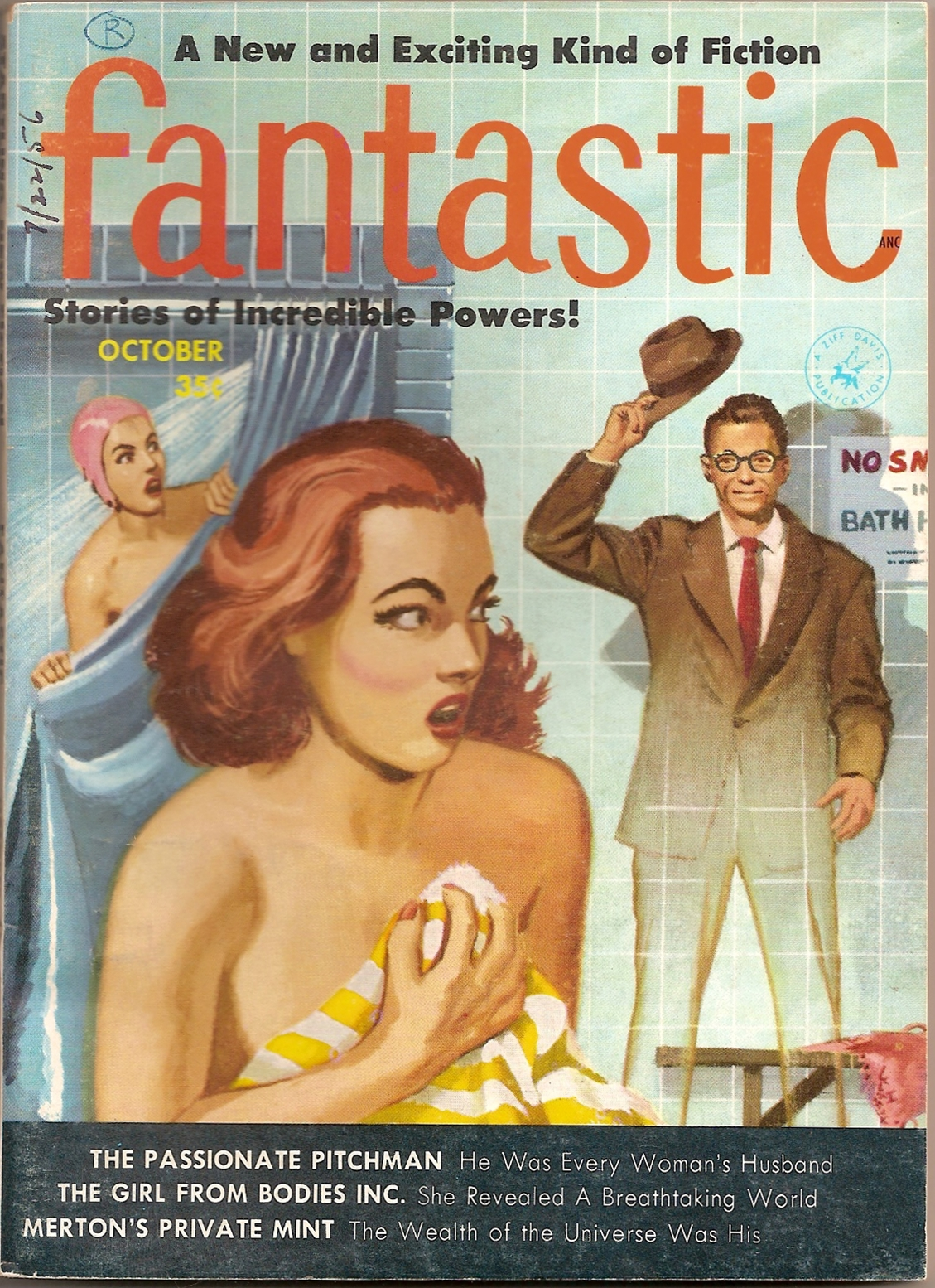 Cover of October 1956 issue of Fantastic. Artist is Ed Valigursky. Copyright was either Valigursky, or more likely Ziff-Davis, who published the magazine.